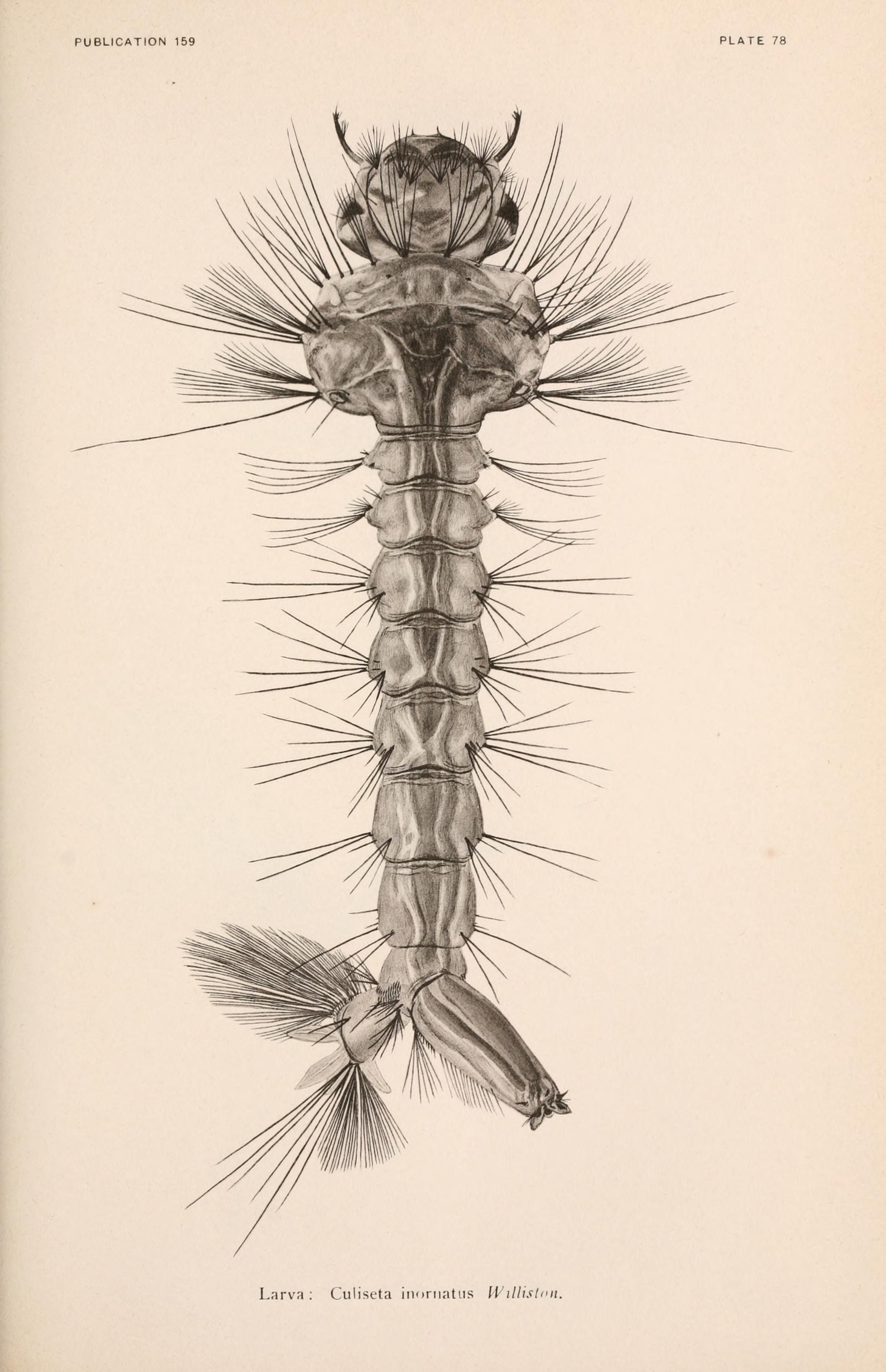 Title: Carnegie Institution of Washington publication Year: 1912 (1910s) Authors: Carnegie Institution of Washington Subjects: Publisher: Washington, Carnegie Institution of Washington Text Appearing Before Image: PUBLICATION 159 PLATE 78 Text Appearing After Image: Larva : Culiseta inoniatiis Willis I en.